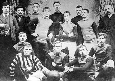 Barnsley St Peters Football Club in 1897. This club later became Barnsley FC.